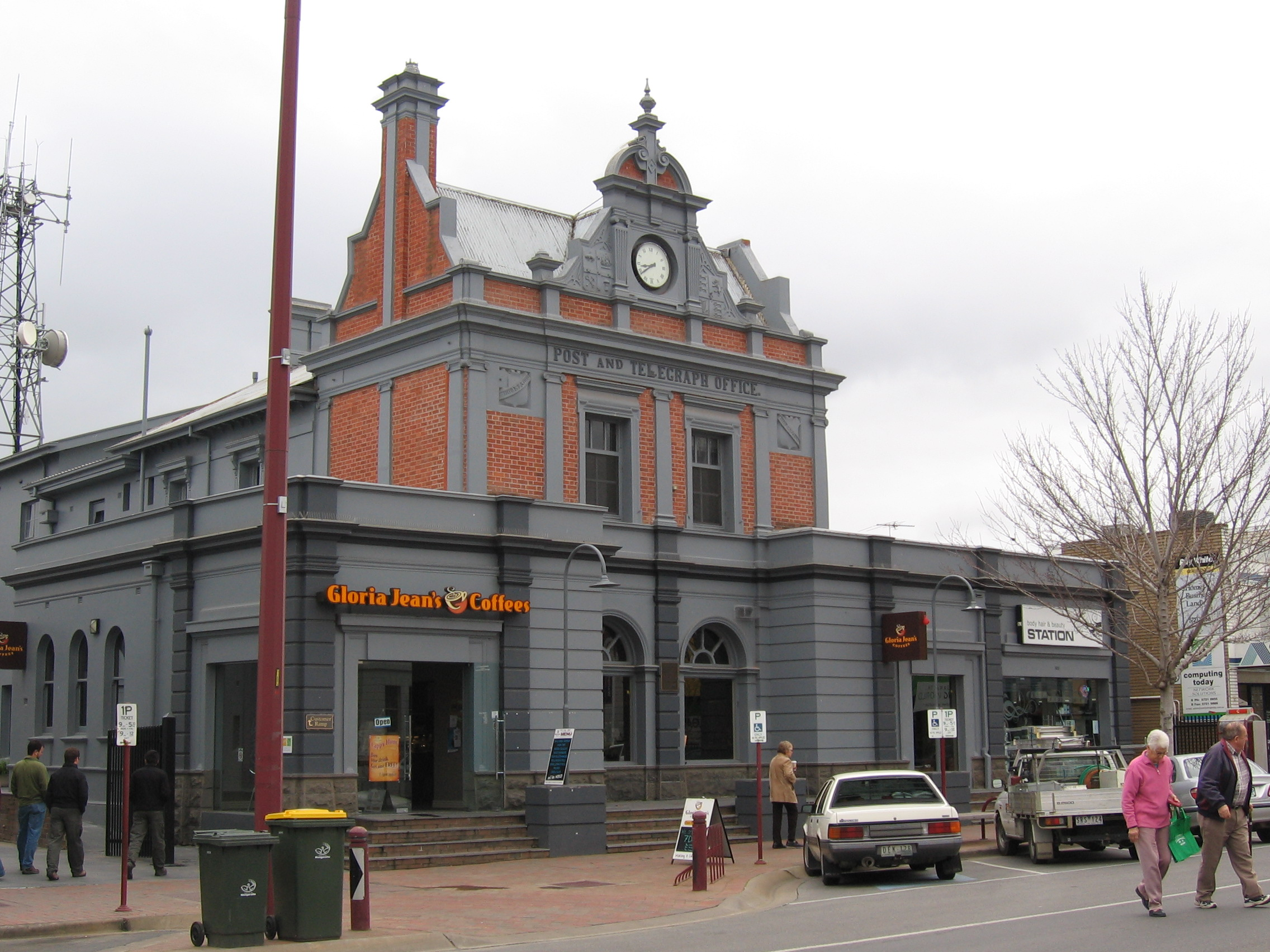 Historic Post office at Wangaratta, Victoria, now a coffee shop